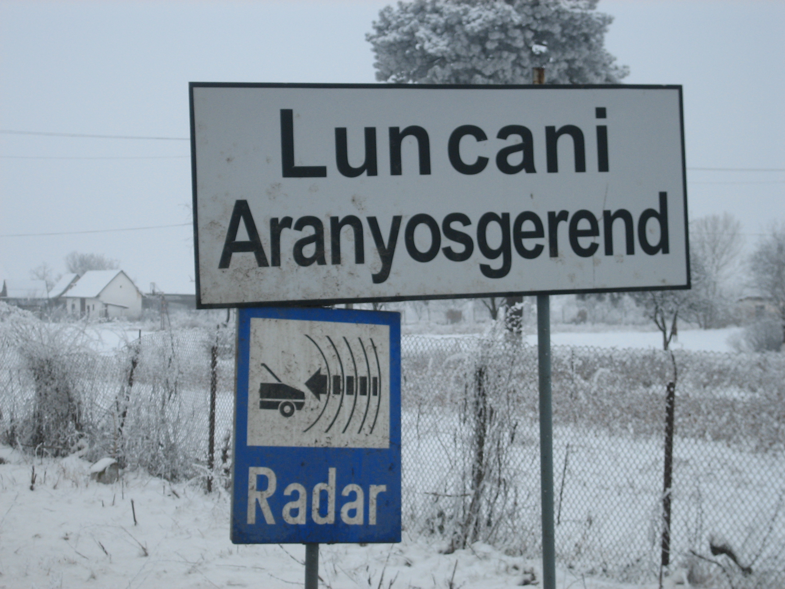 The placename board in Luncani/Aranyosgerend.